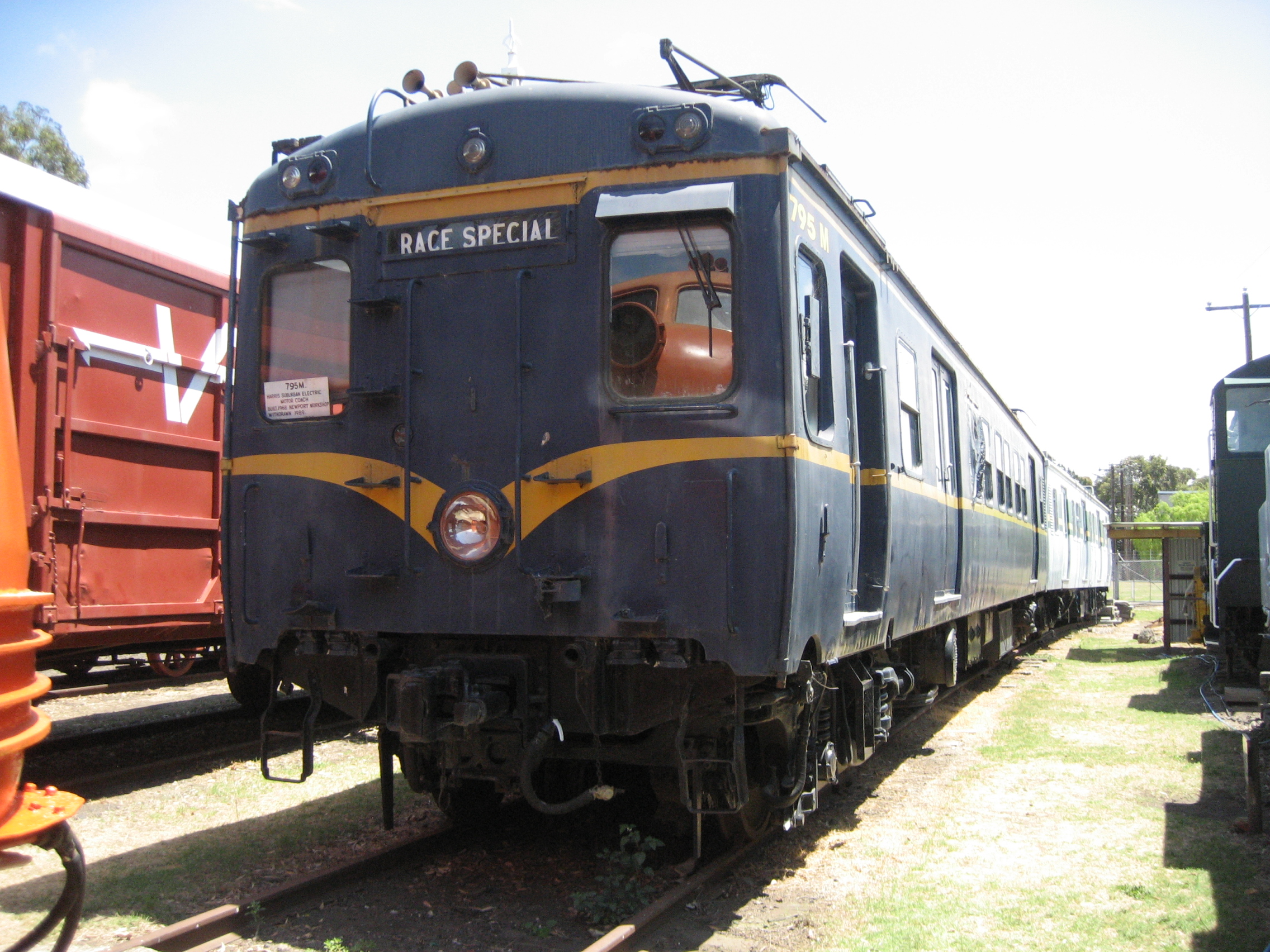 Original Harris 795M at the North Williamstown railway museum.